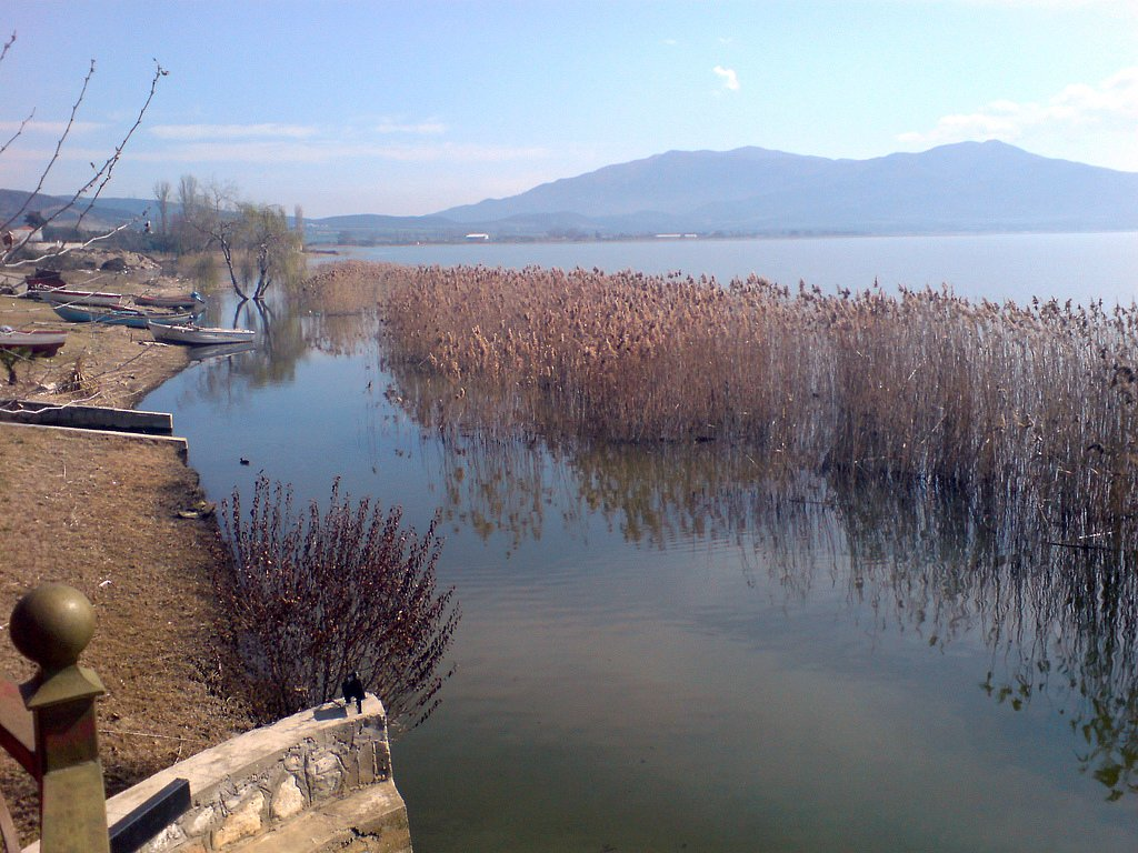 Lake Volvi, Central Macedonia, Greece.